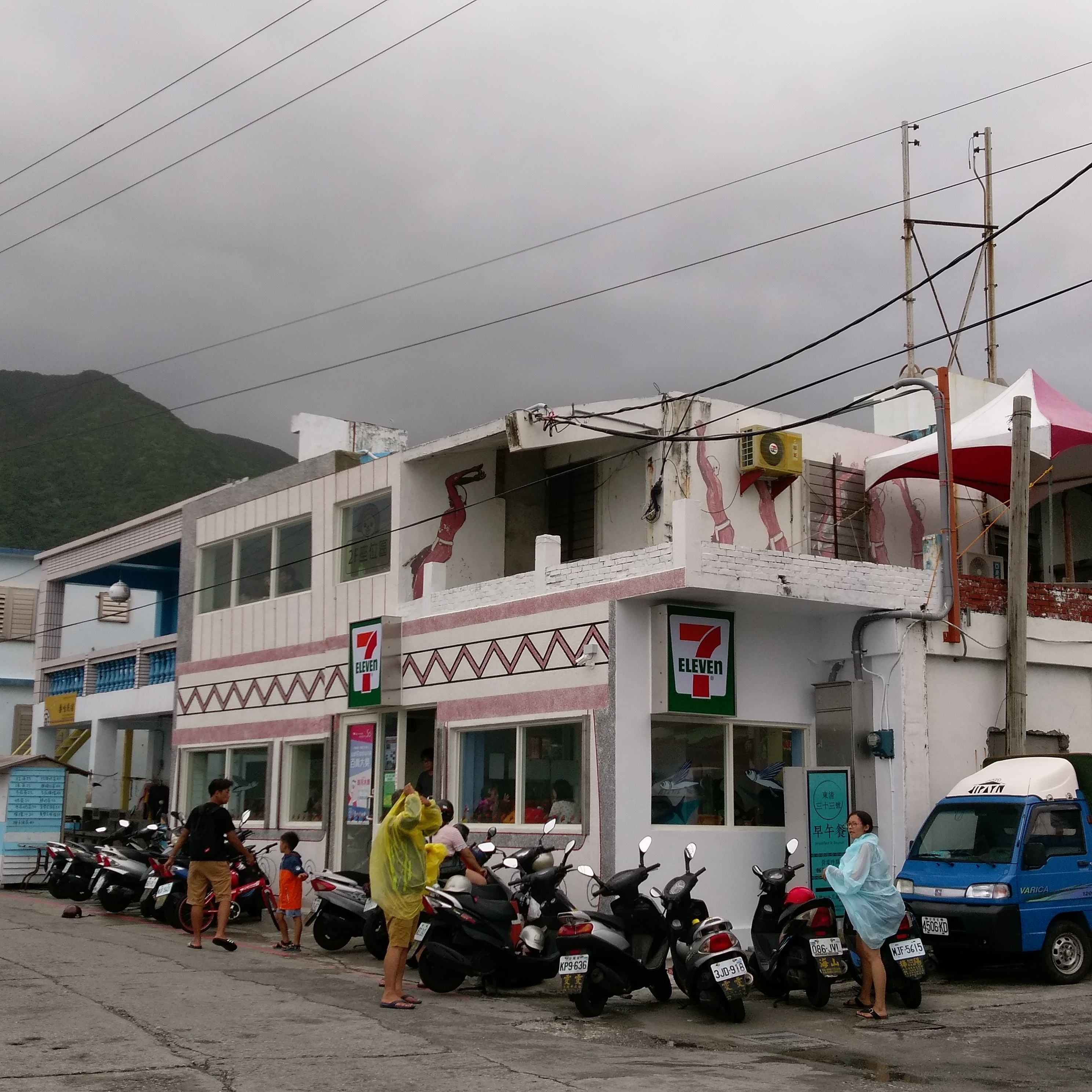 7-Eleven convenience store at Iranmeylek.